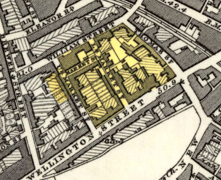 Detail of Ordnance Survey Map of 1863-66 (published in 1870) of Woolwich, SE London (then Kent). Highlighted in yellow: the Bathway Quarter, designated as a Conservation Area.